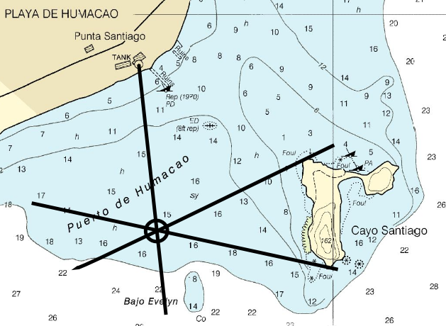 ==added three bearing lines and visual fix symbol